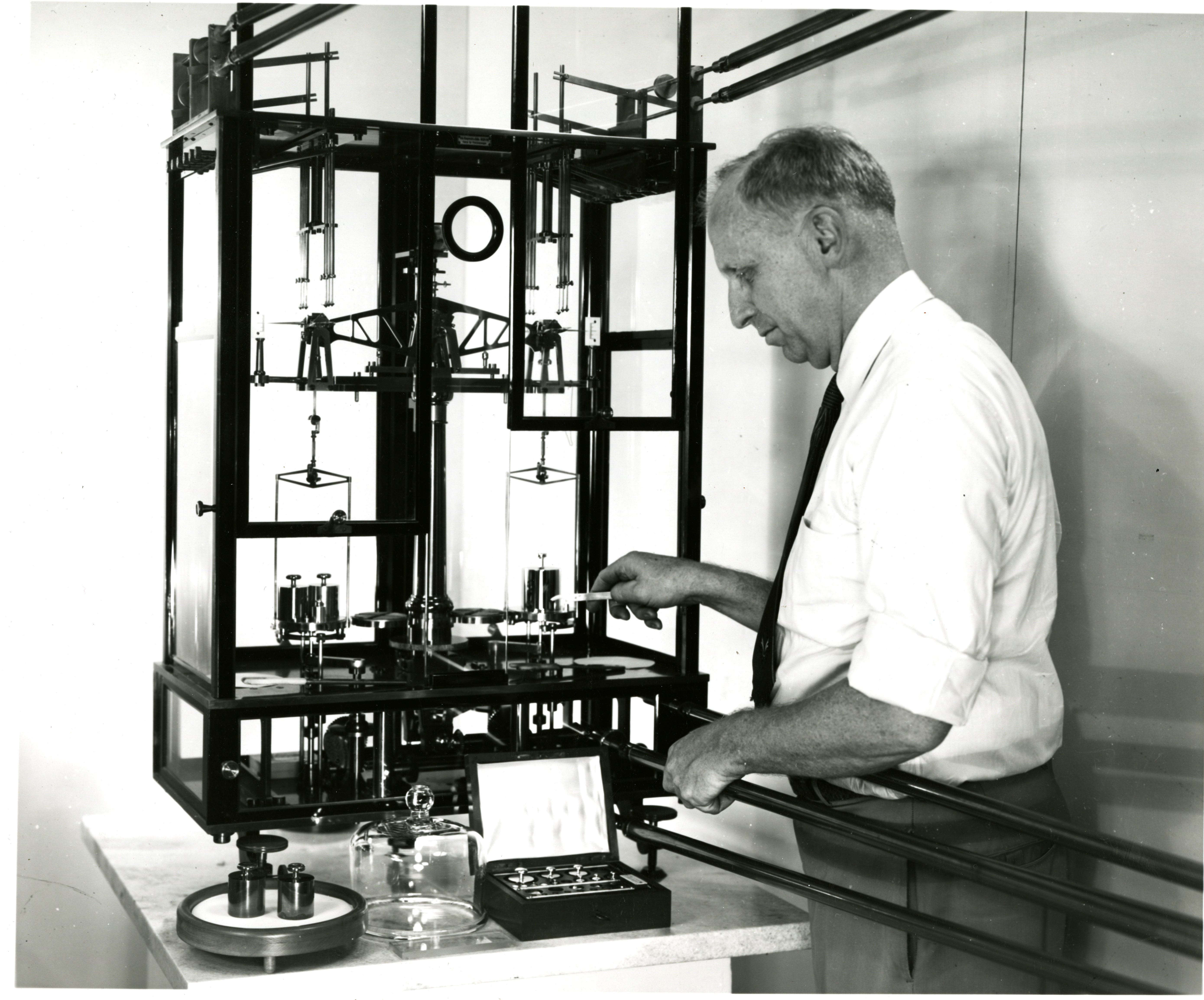 Rueprecht balance